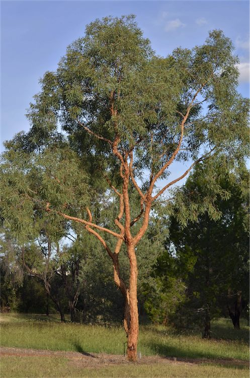 Corymbia leichhardtii in the Emerald Botanic Gardens, Emerald, Queensland